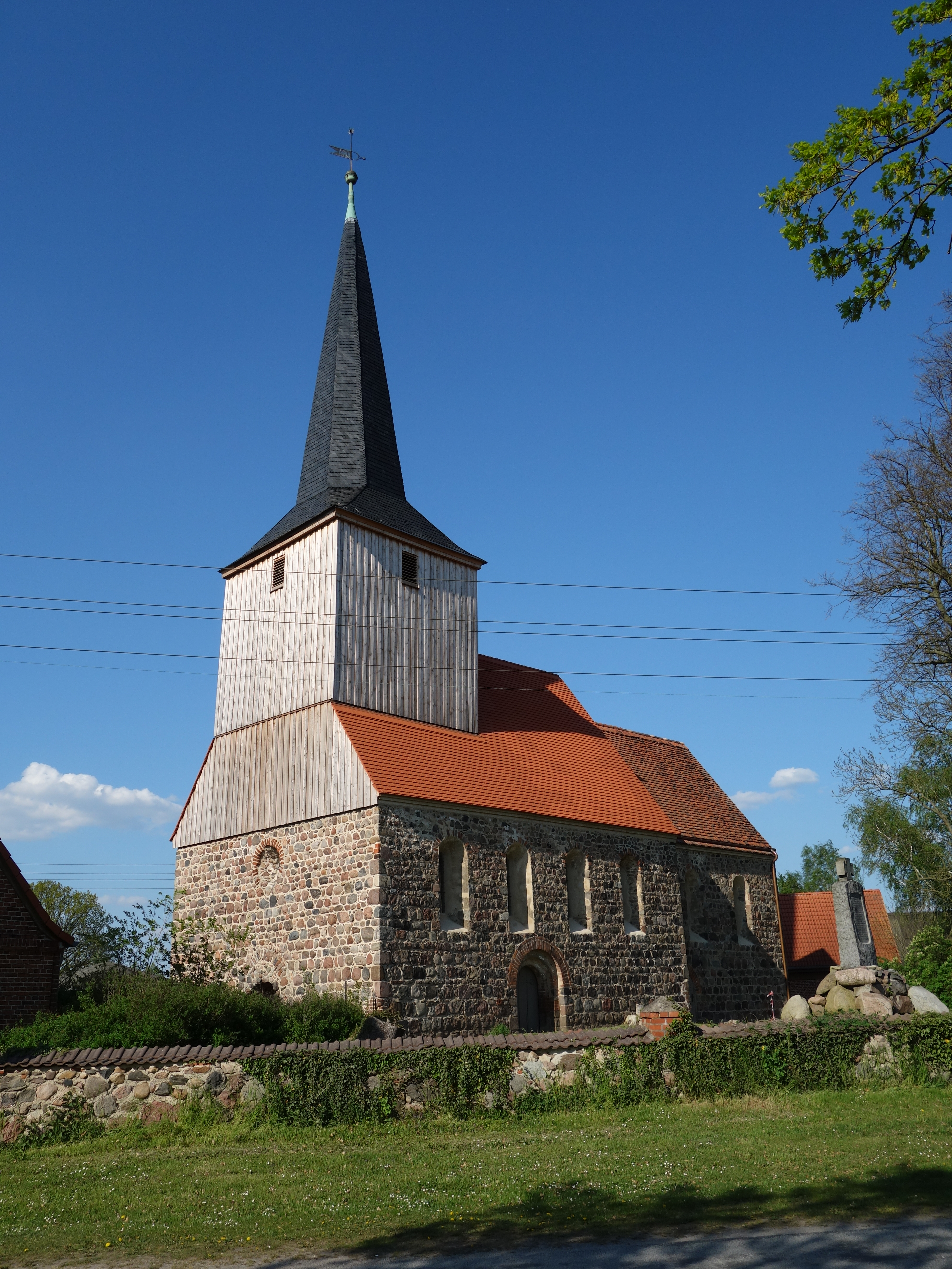 South-western view of church in Gantikow, Kyritz municipality, Ostprignitz-Ruppin district, Brandenburg state, Germany